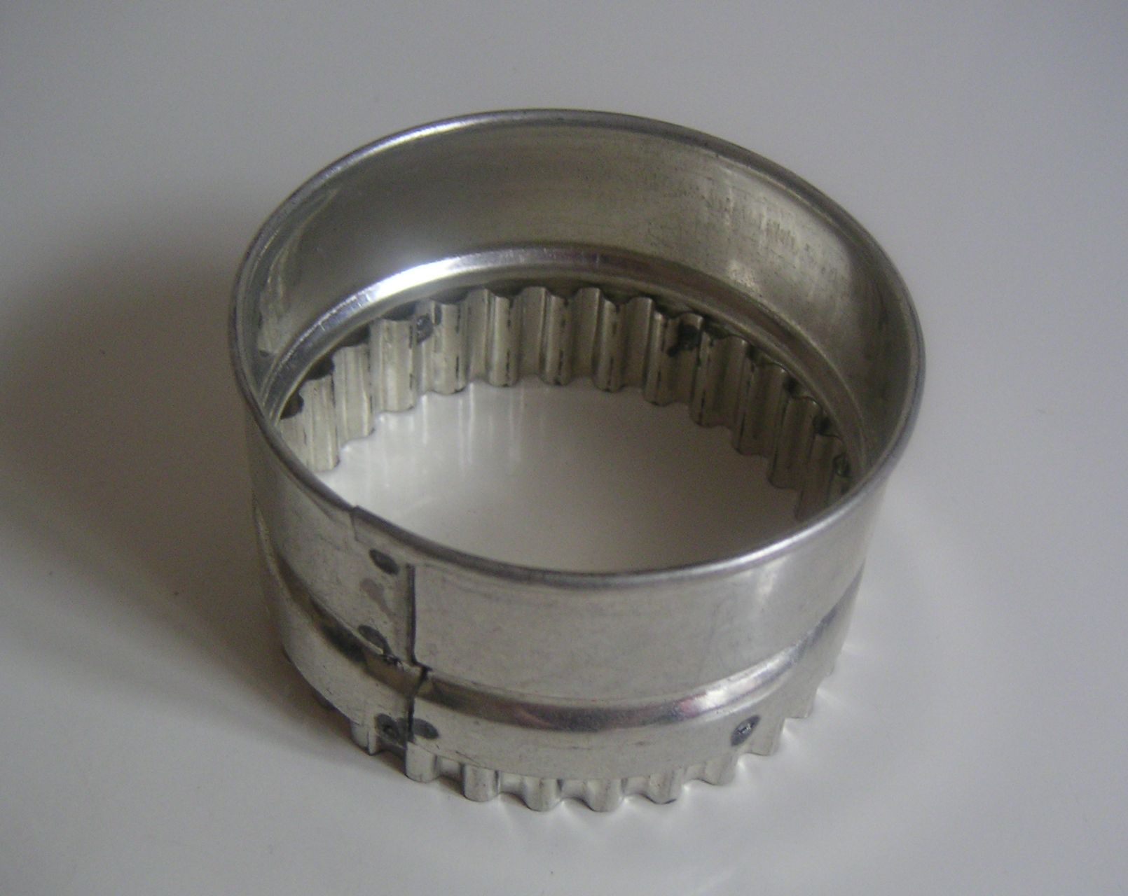 In Minorquian cooking this tin is used to cut Minorquian cookies called 'crespellets' but also to make 'formatjades' or 'panades'.